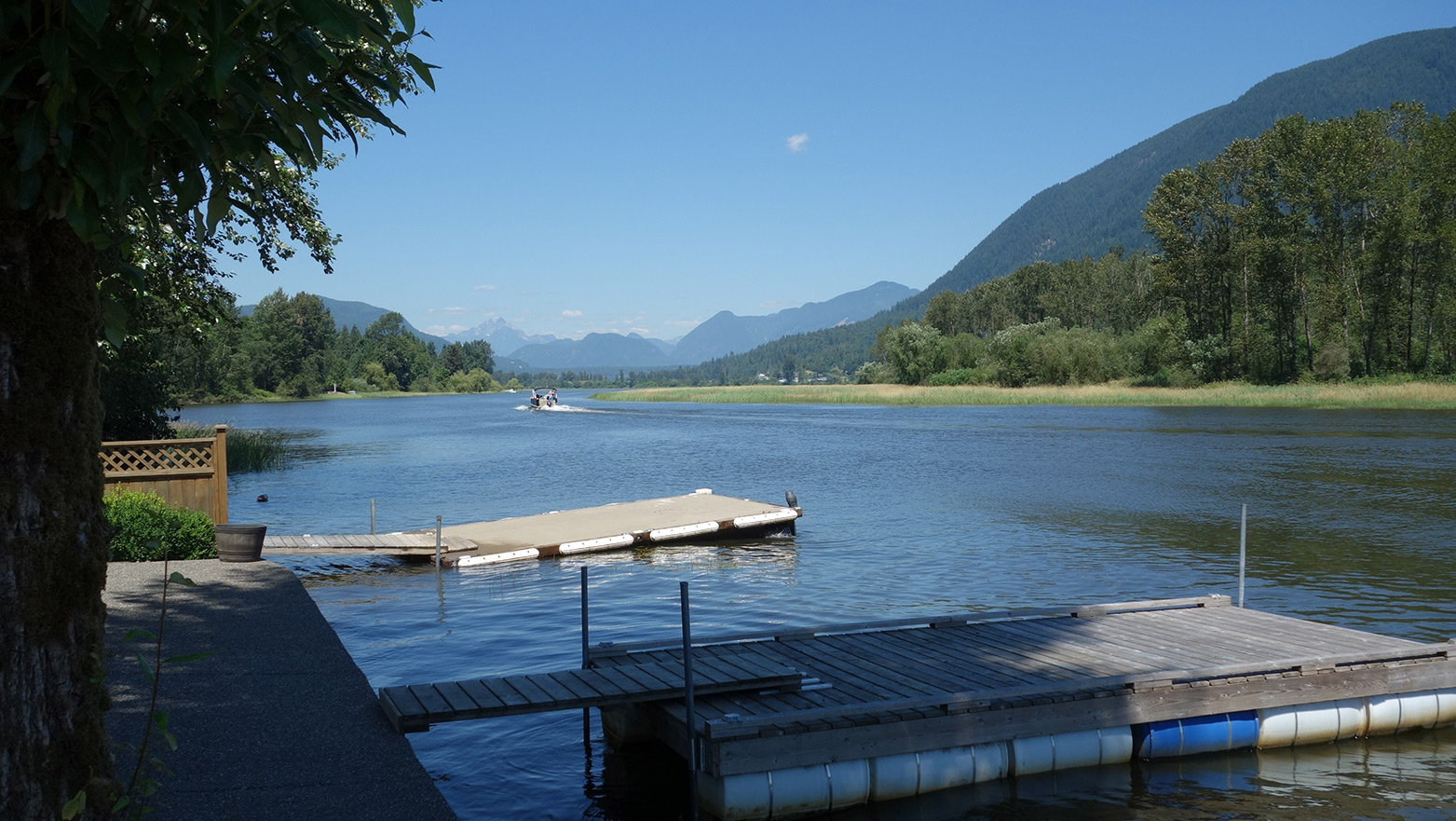 Hatzic Lake, near Vancouver, Canada